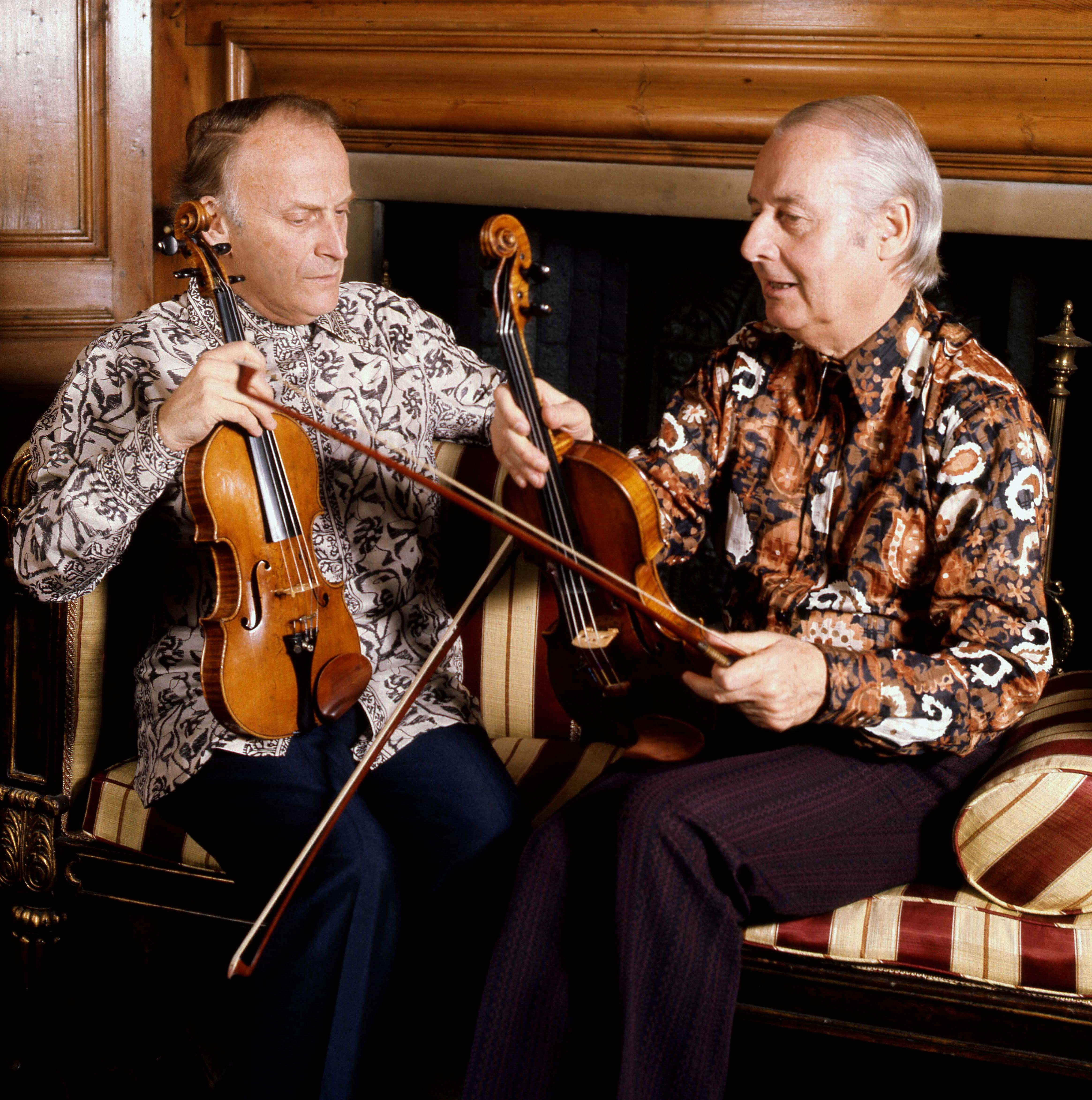 Stephane Grappelli and Yehudi Menuhin